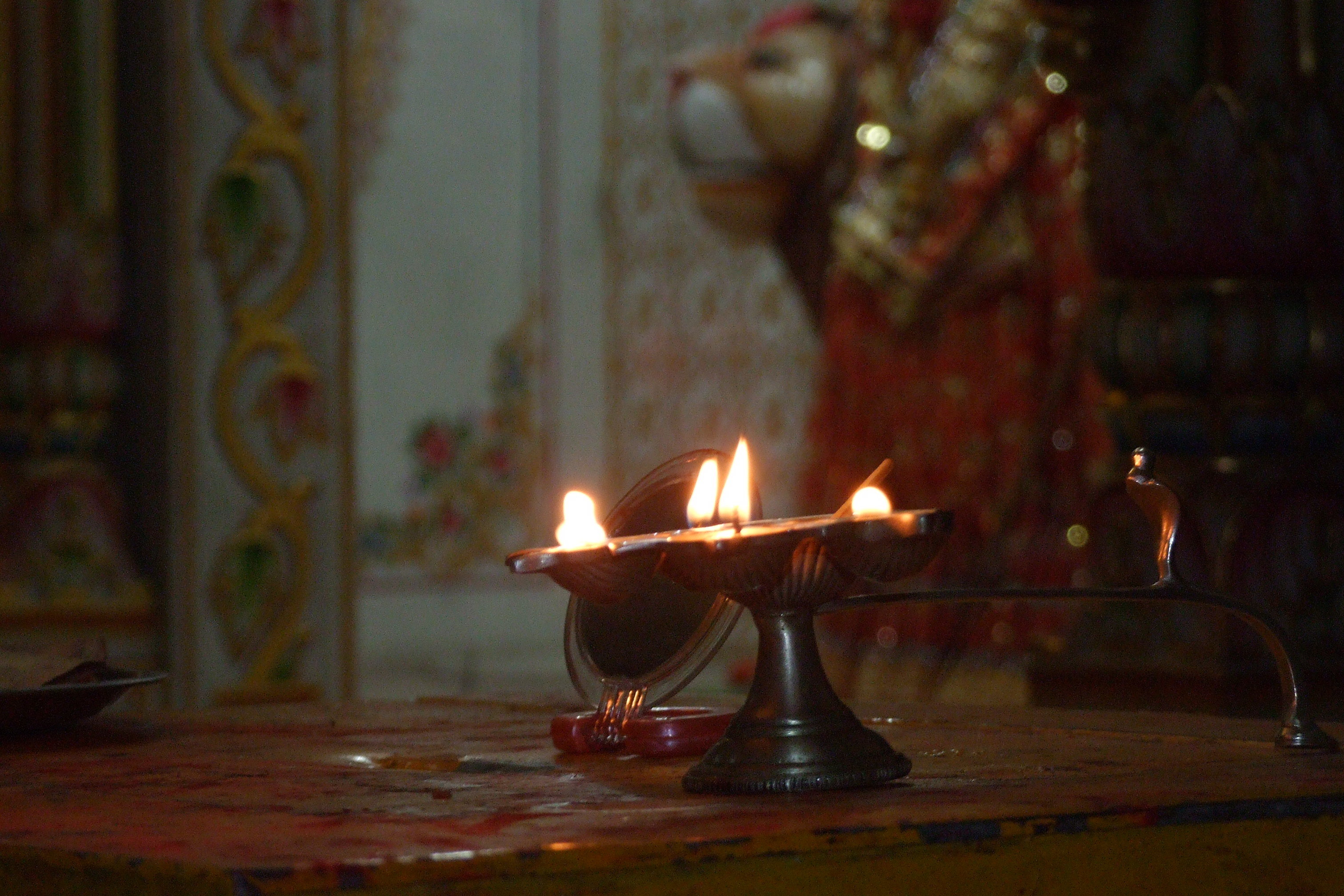 An aarti plate used in Hindu worship.